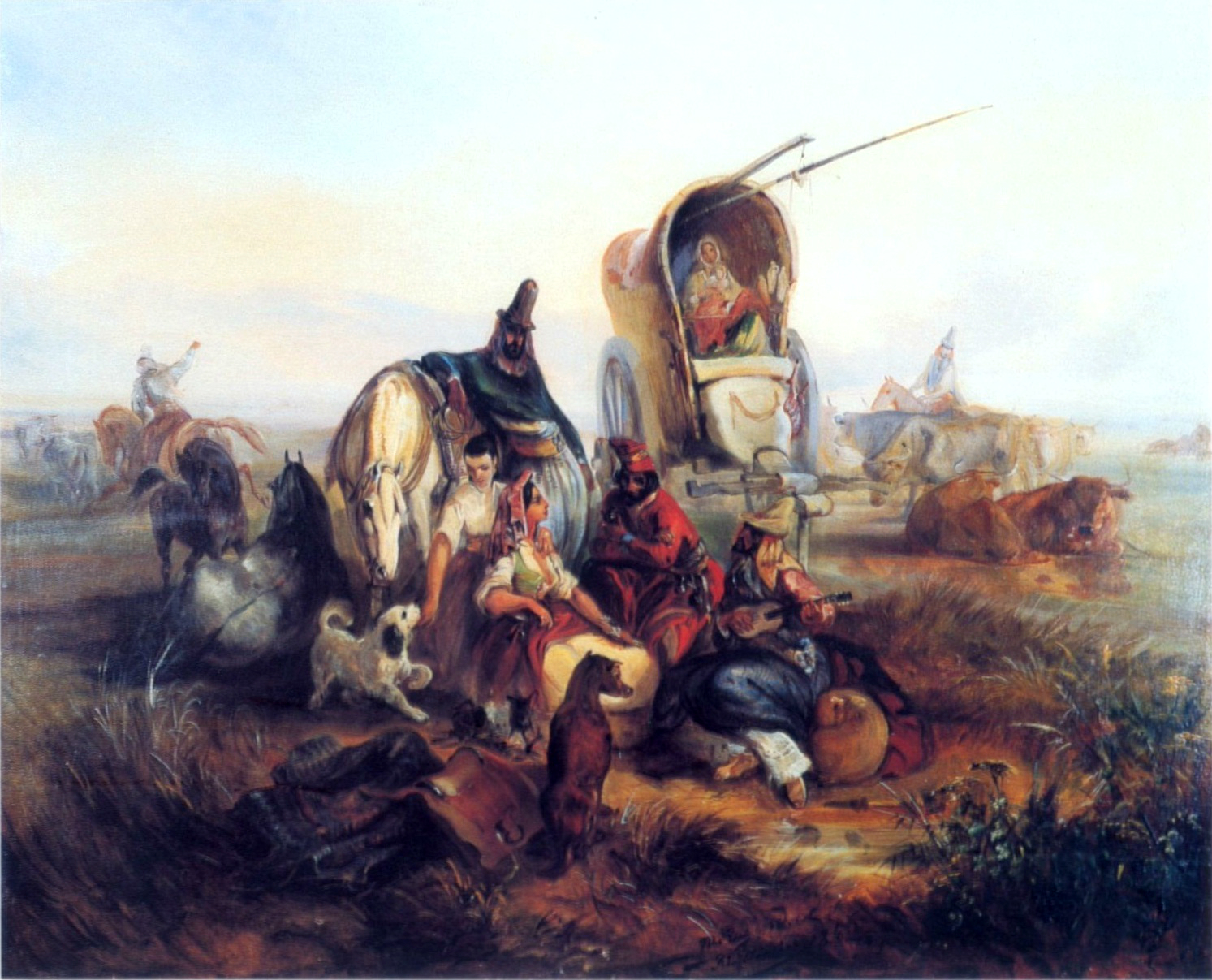 Argentine gauchos resting in the pampas, 1846.